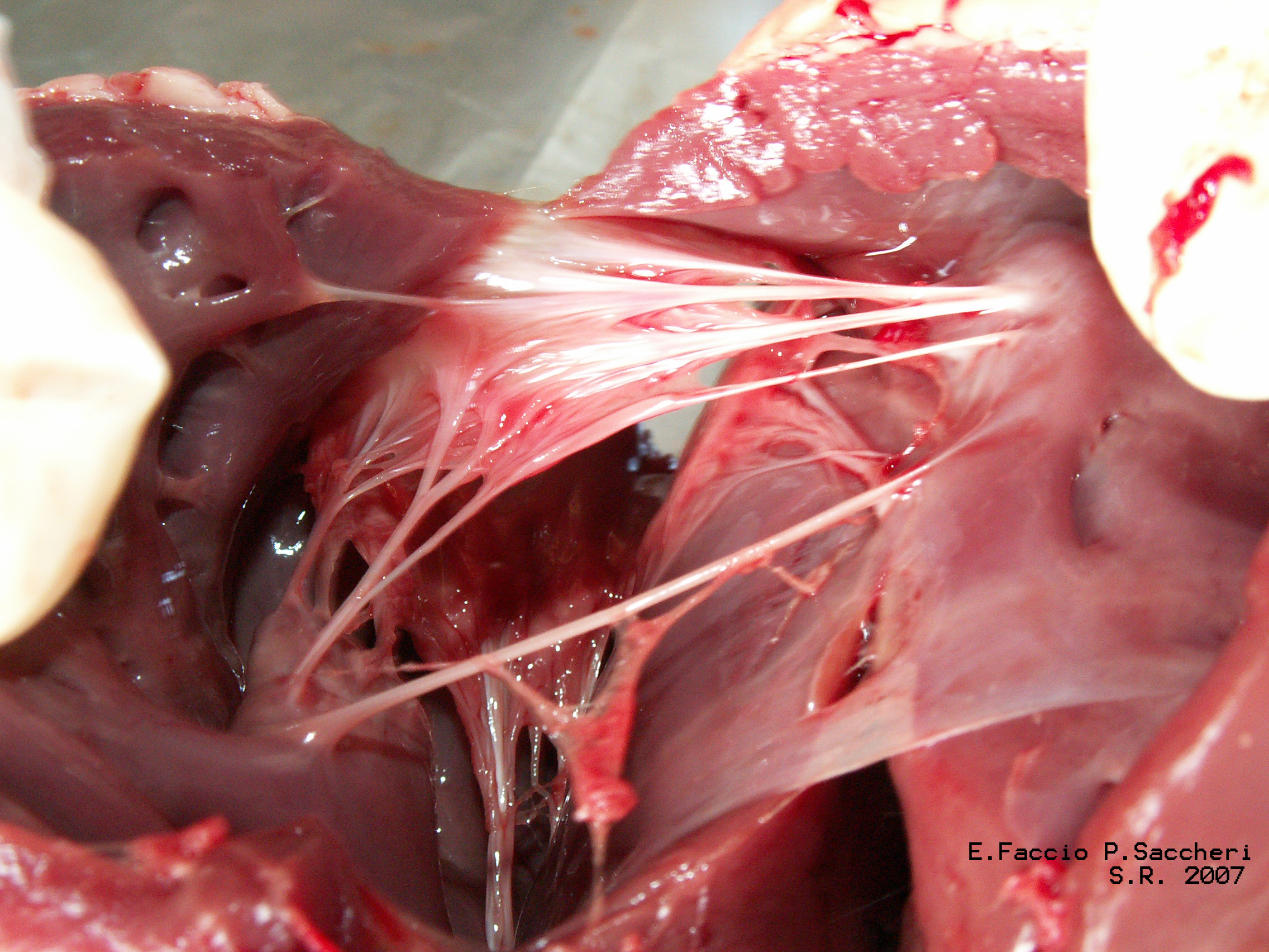 Heart